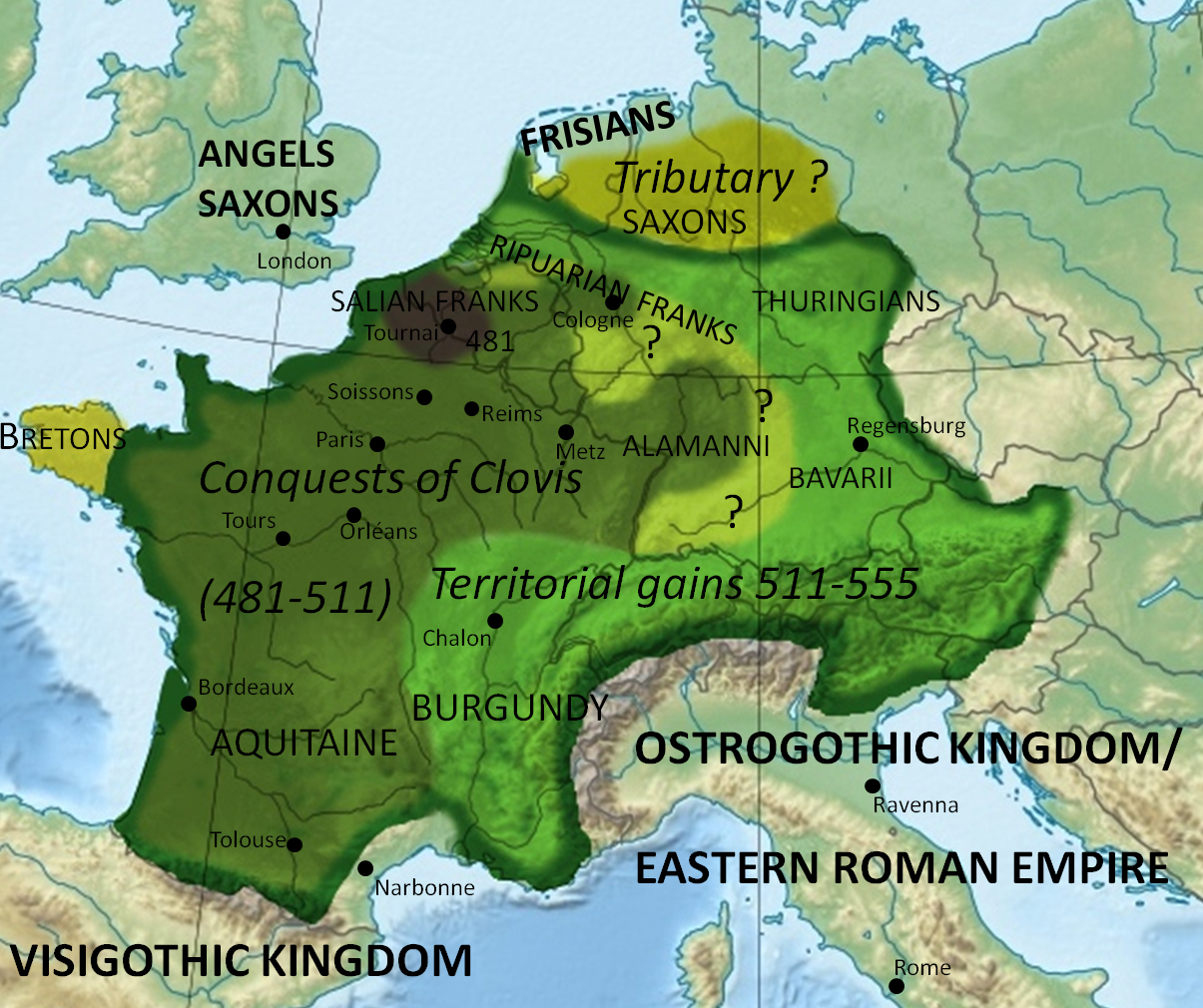 Expansion of the Merowingian Frankish Empire from Cloivs accesion to power (481) to the death of Theudebald (555), including probably tributary areas Sources: Eugen Ewig: Die Merowinger und das Frankenreich. Kohlhammer Verlag, Fünfte aktualisierte Auflage 2006. Matthias Springer: Die Sachsen. Kohlhammer, Stuttgart 2004, ISBN 3-17-016588-7. Dieter Geuenich: Geschichte der Alemannen. 2., überarbeitete Auflage, Kohlhammer, Stuttgart 2005, ISBN 978-3-17-018227-1.